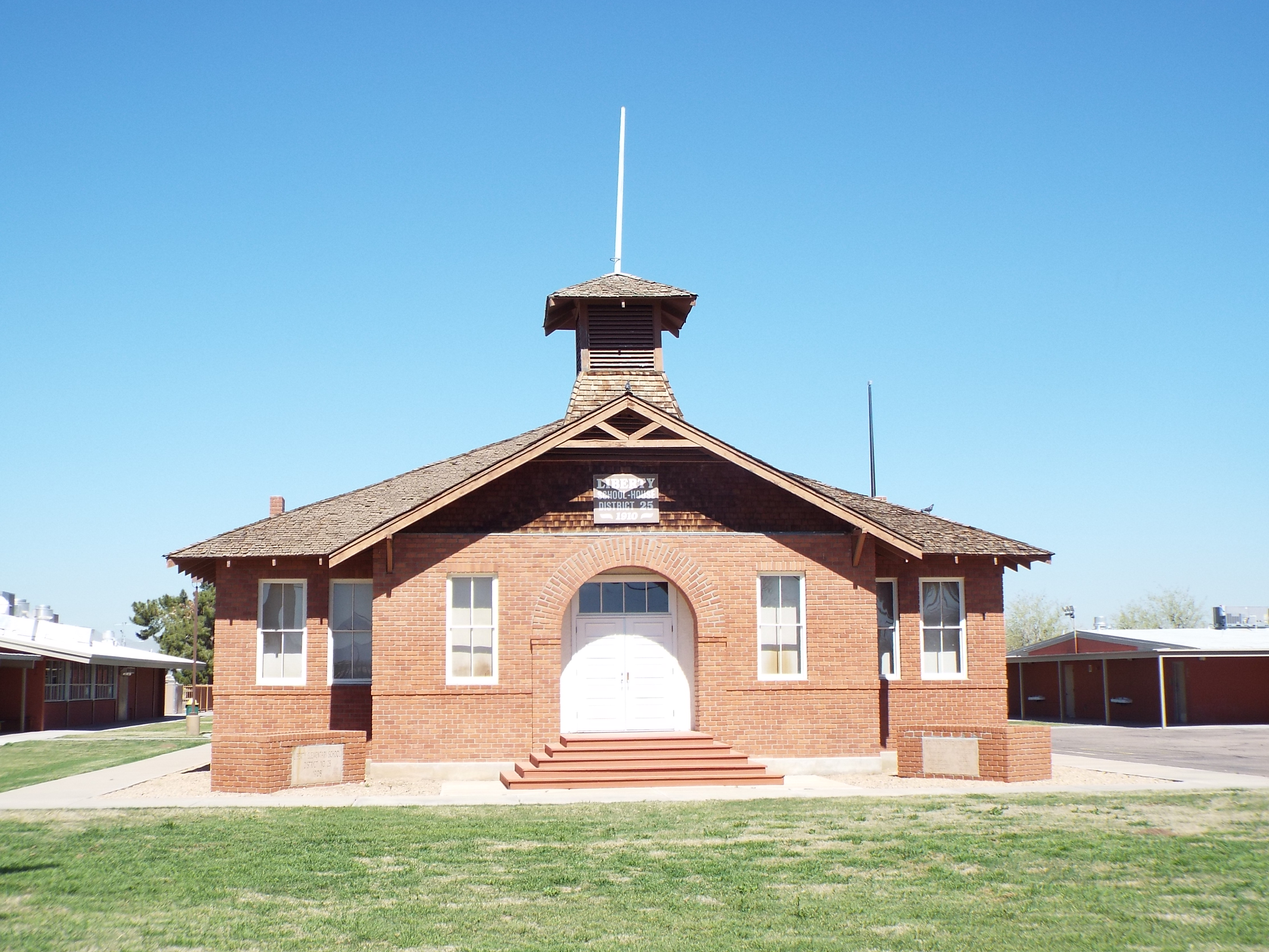 The Front of Liberty School which was built in 1910 and is located on 19871 Fremont Road in Buckeye, Az.